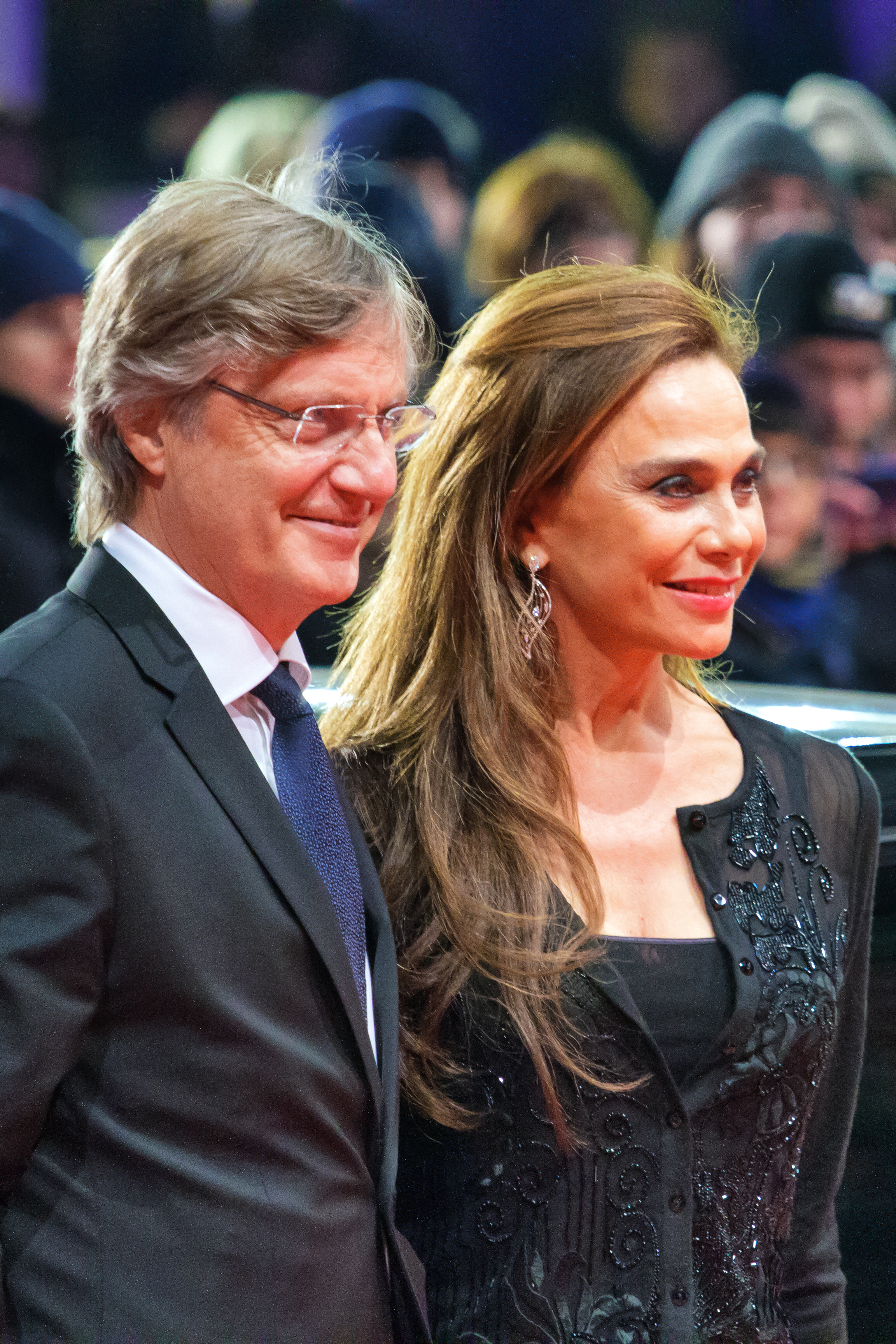 Lena Olin and Lasse Hallström at the Berlin International Film Festival 2013